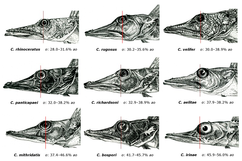 Heads of 9 Channichthys icefishes off the Kerguelen Islands, Antarctica